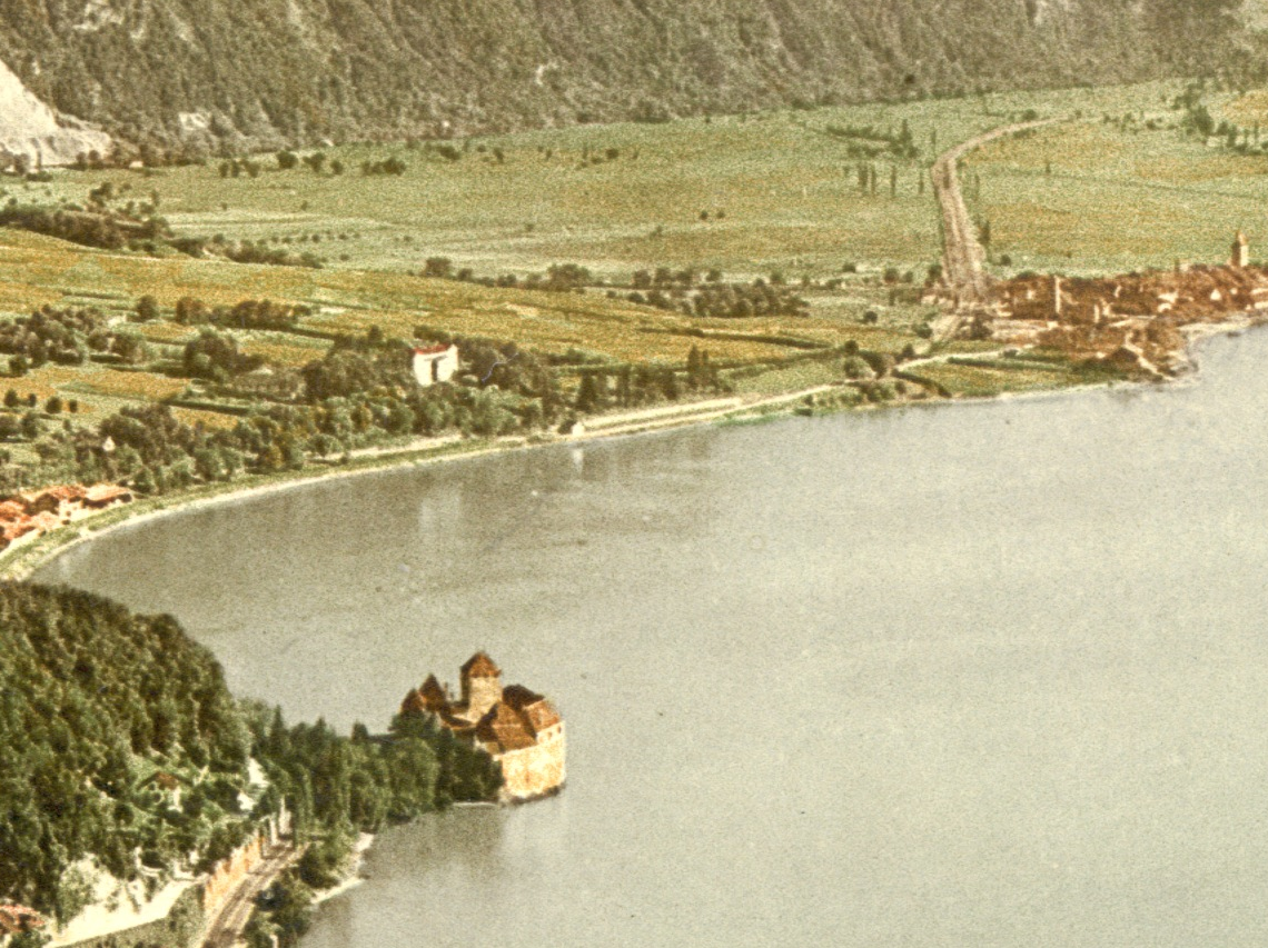 Forms part of: Views of Switzerland in the Photochrom print collection.; Title from the Detroit Publishing Co., Catalogue J-foreign section, Detroit, Mich. : Detroit Publishing Company, 1905.; Print no. "6893".